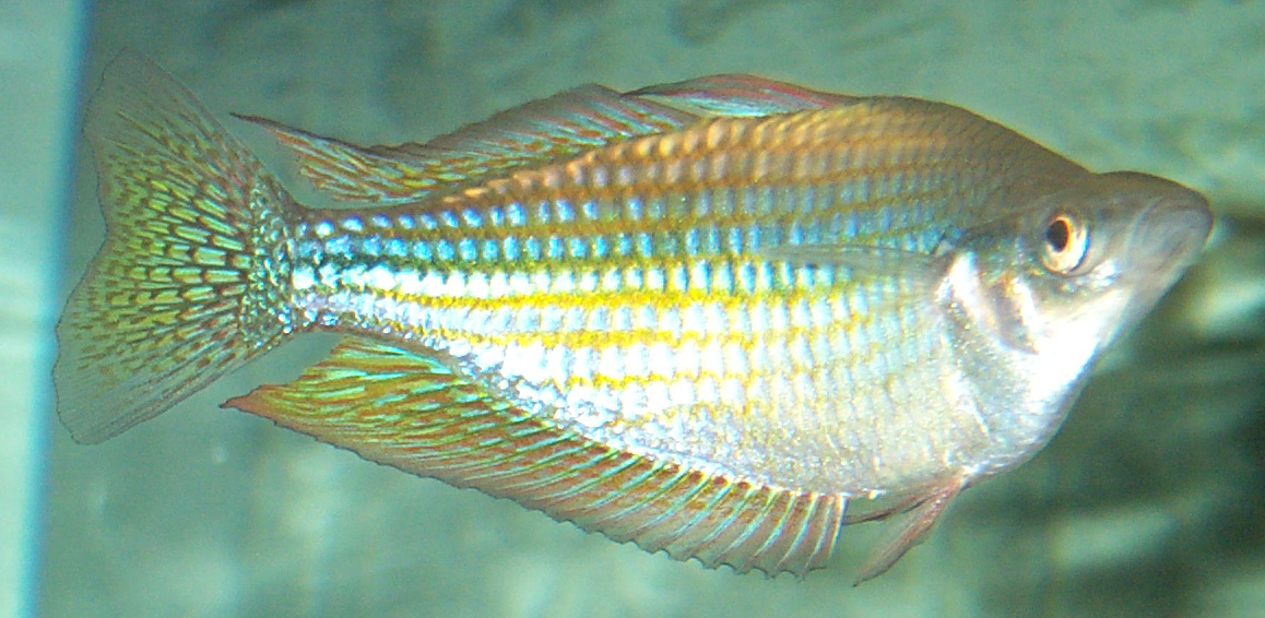 Australian rainbowfish